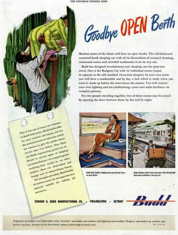 Ad from The Saturday Evening Post for the Budd Company's new type of sleeping cars. "1945 No More Open Berth Railroad Sleeping Cars Ad"